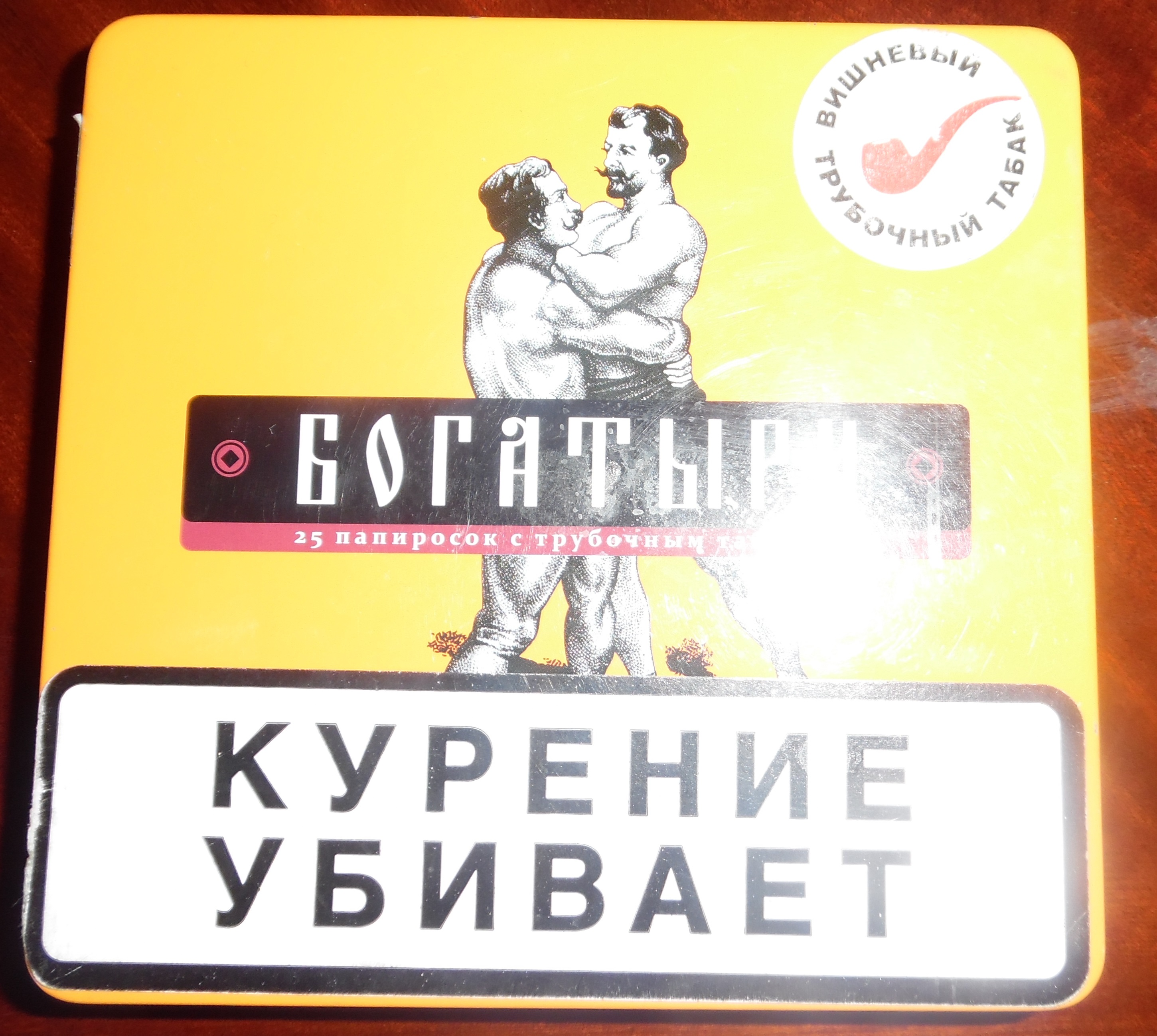 bOGATYRI papiroses